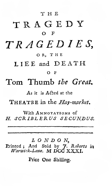 Fielding, Henry. The tragedy of tragedies, or, the liee [sic] and death of Tom Thumb the Great. As it is acted at the theatre in the Hay-market. With annotations of H. Scriblerus secundus. London: Printed and sold by J. Roberts, 1731.